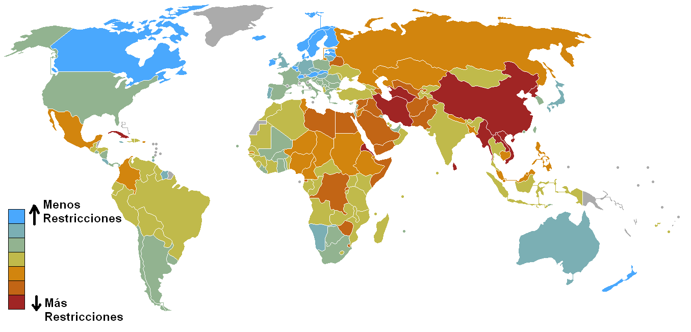 Reporters Without Borders 2008 press freedom ranking map